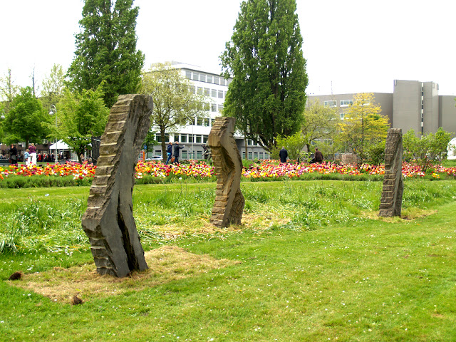 Three Dancers, Eugène Dodeigne